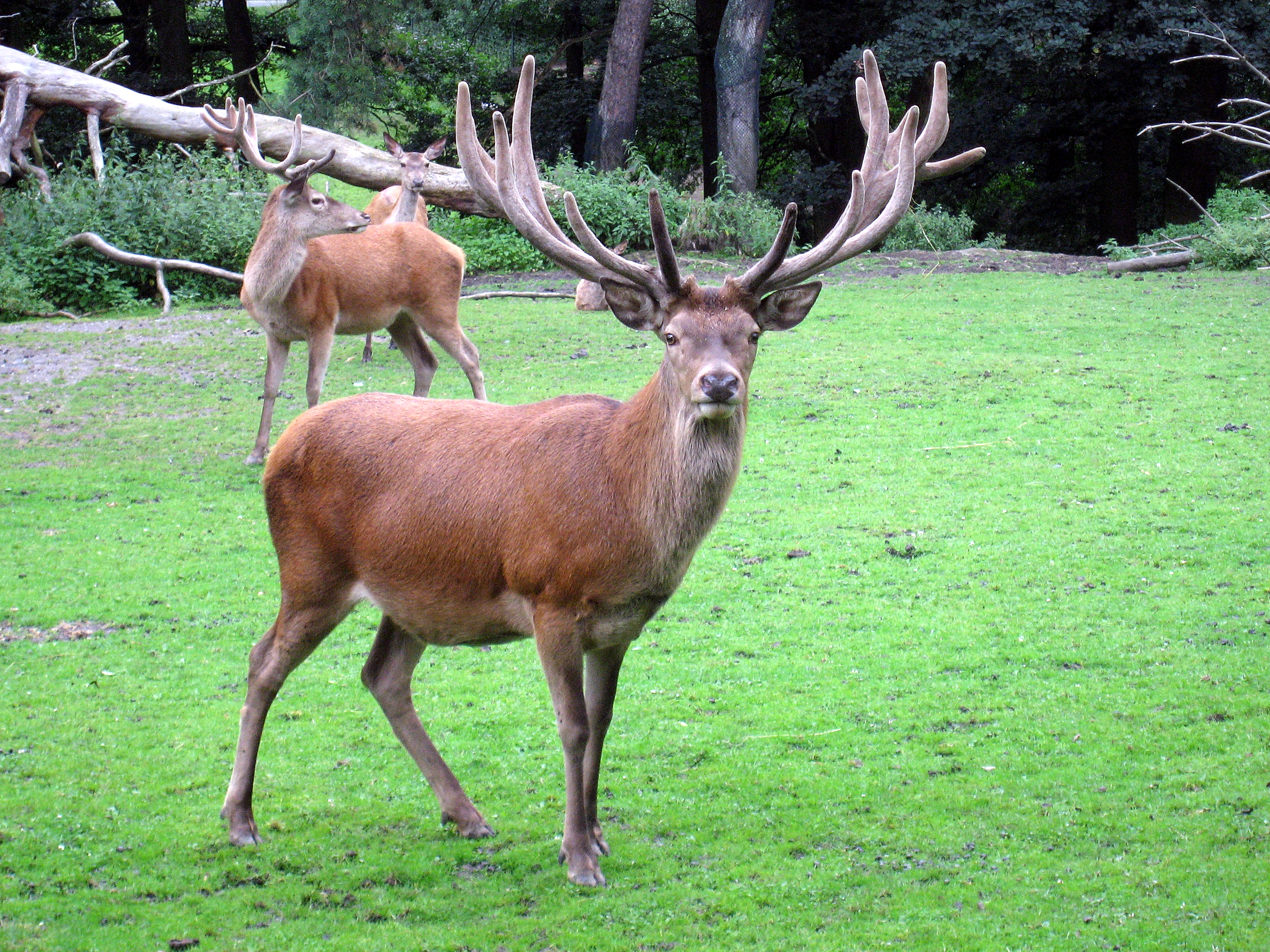 Dortmund, Zoo, Cervus elaphus